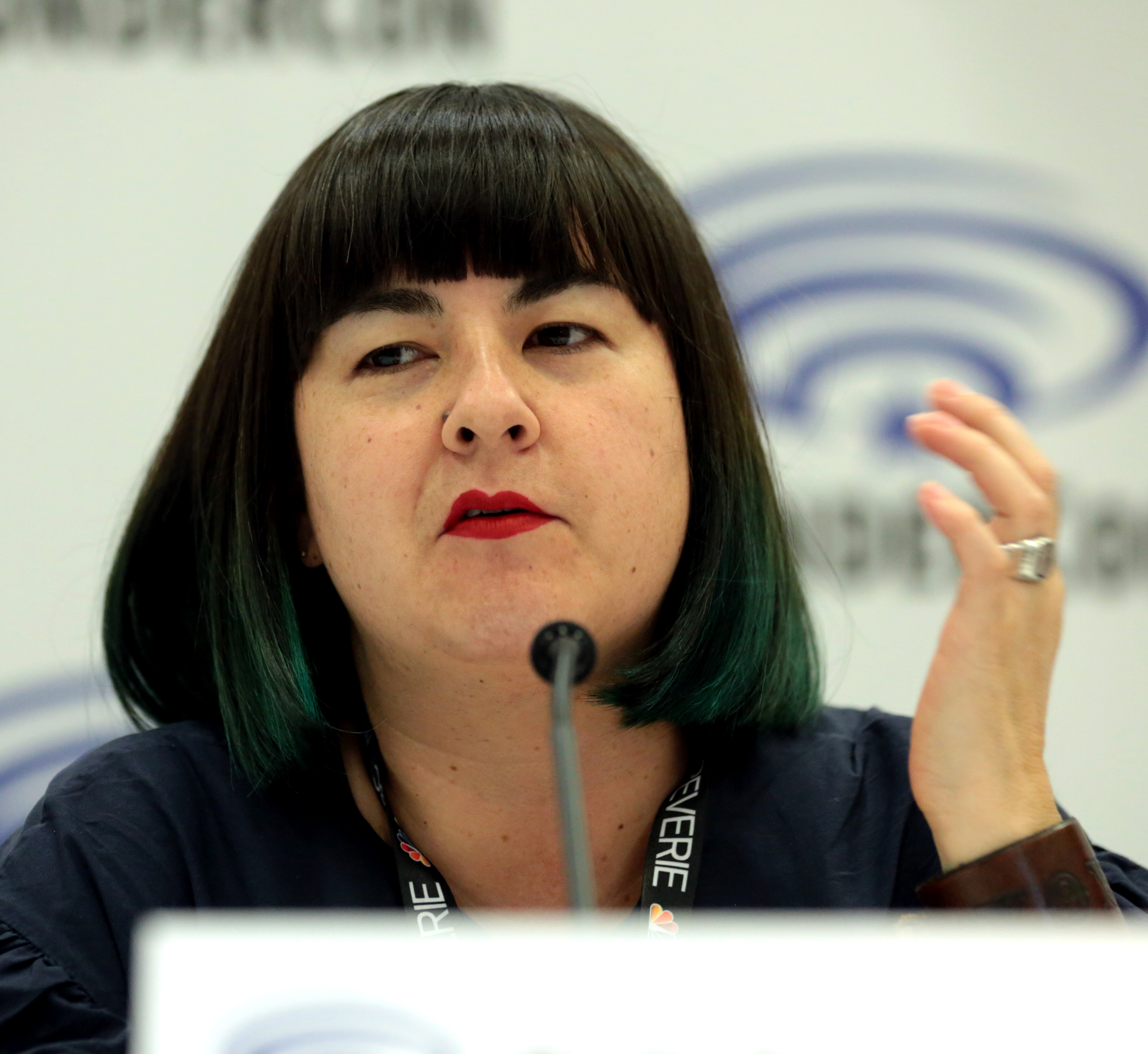 Mariko Tamaki speaking at the 2018 WonderCon in Anaheim, California.